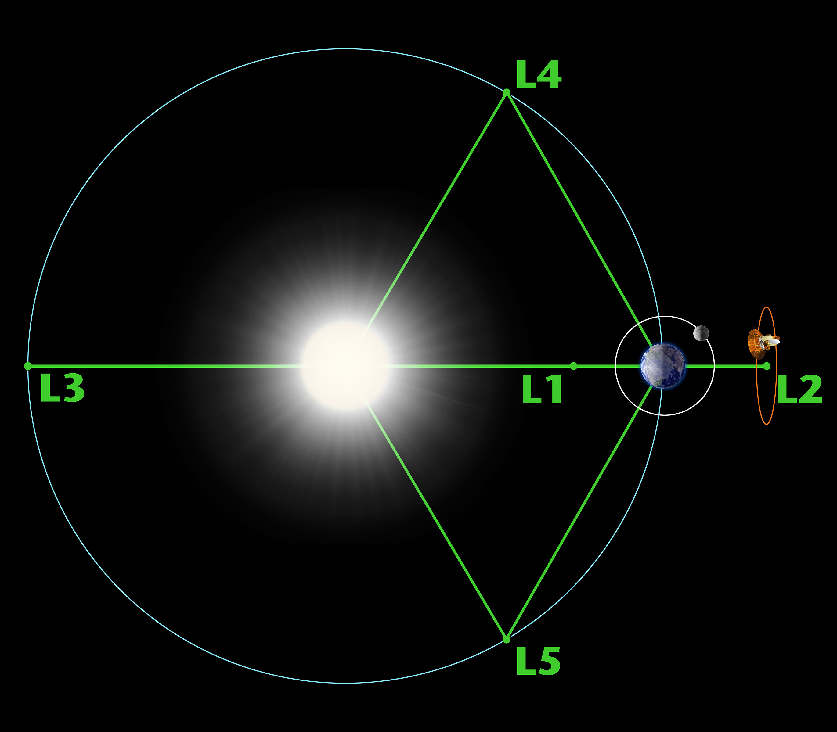 Original title: "Lagrange Points 1-5 of the Sun-Earth system"